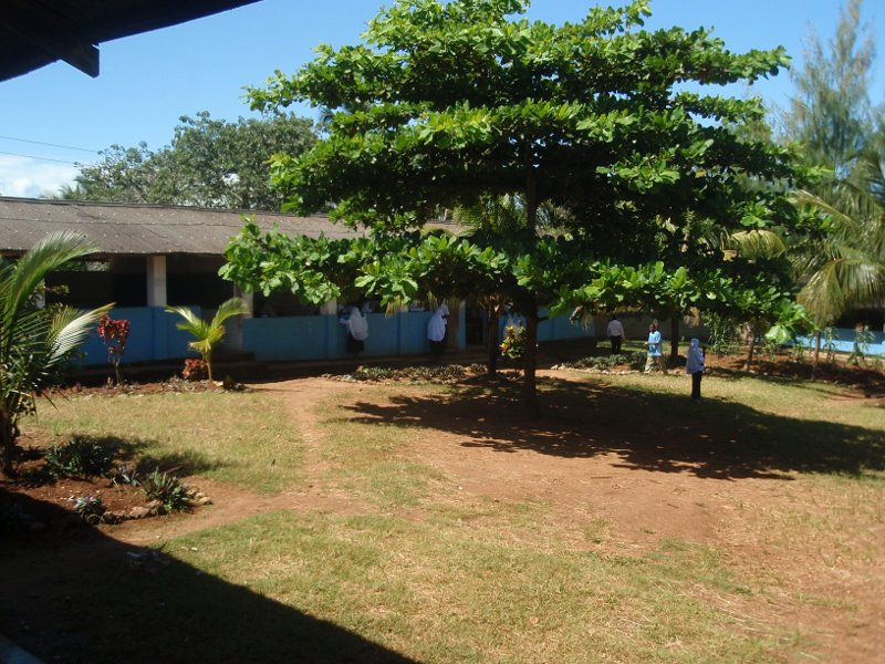 Schoolyard of Kizimkazi School